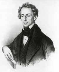 Portrait of Christian Andreas Doppler, the physicist and mathematician